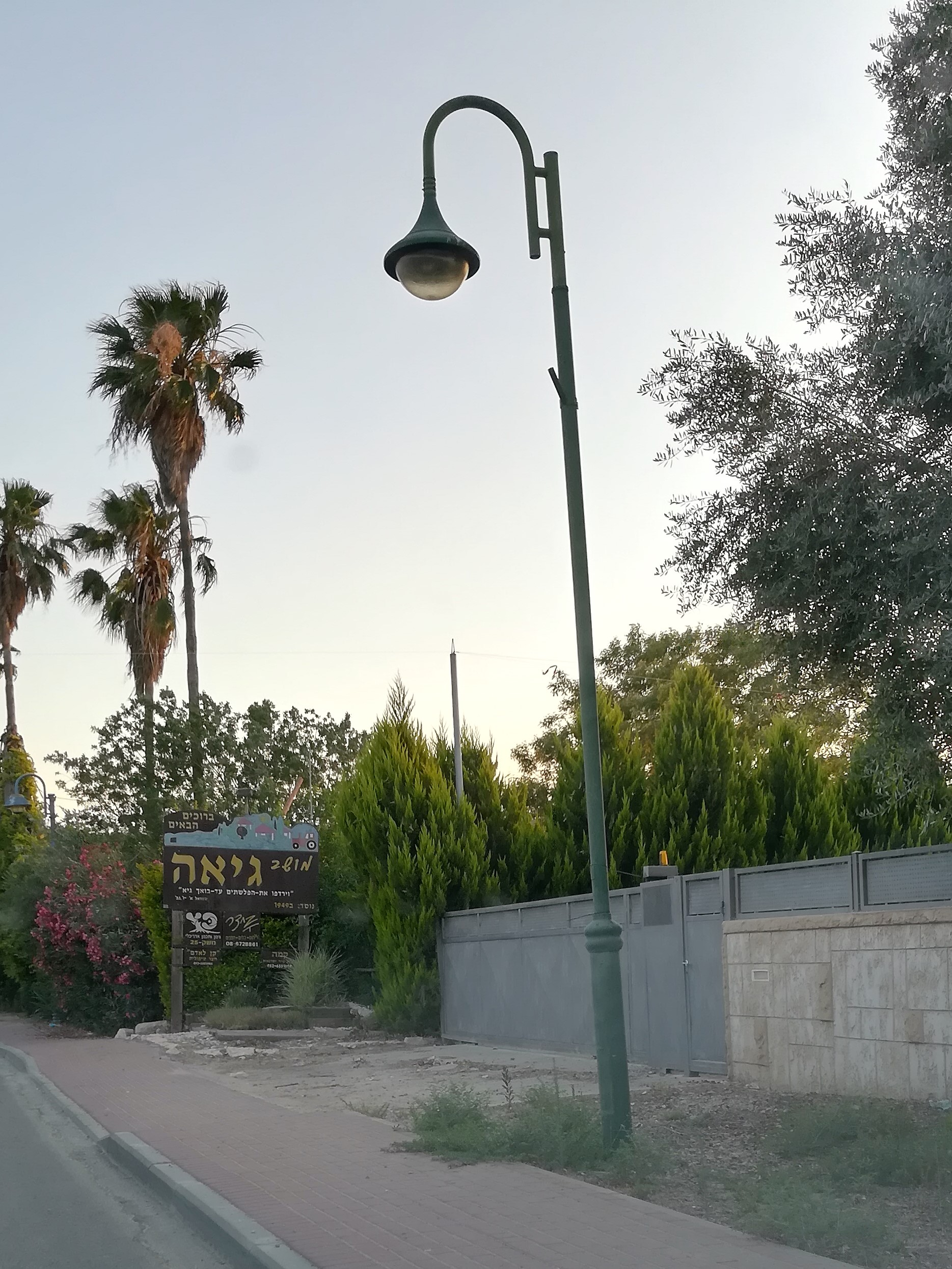 Entrance to Gea